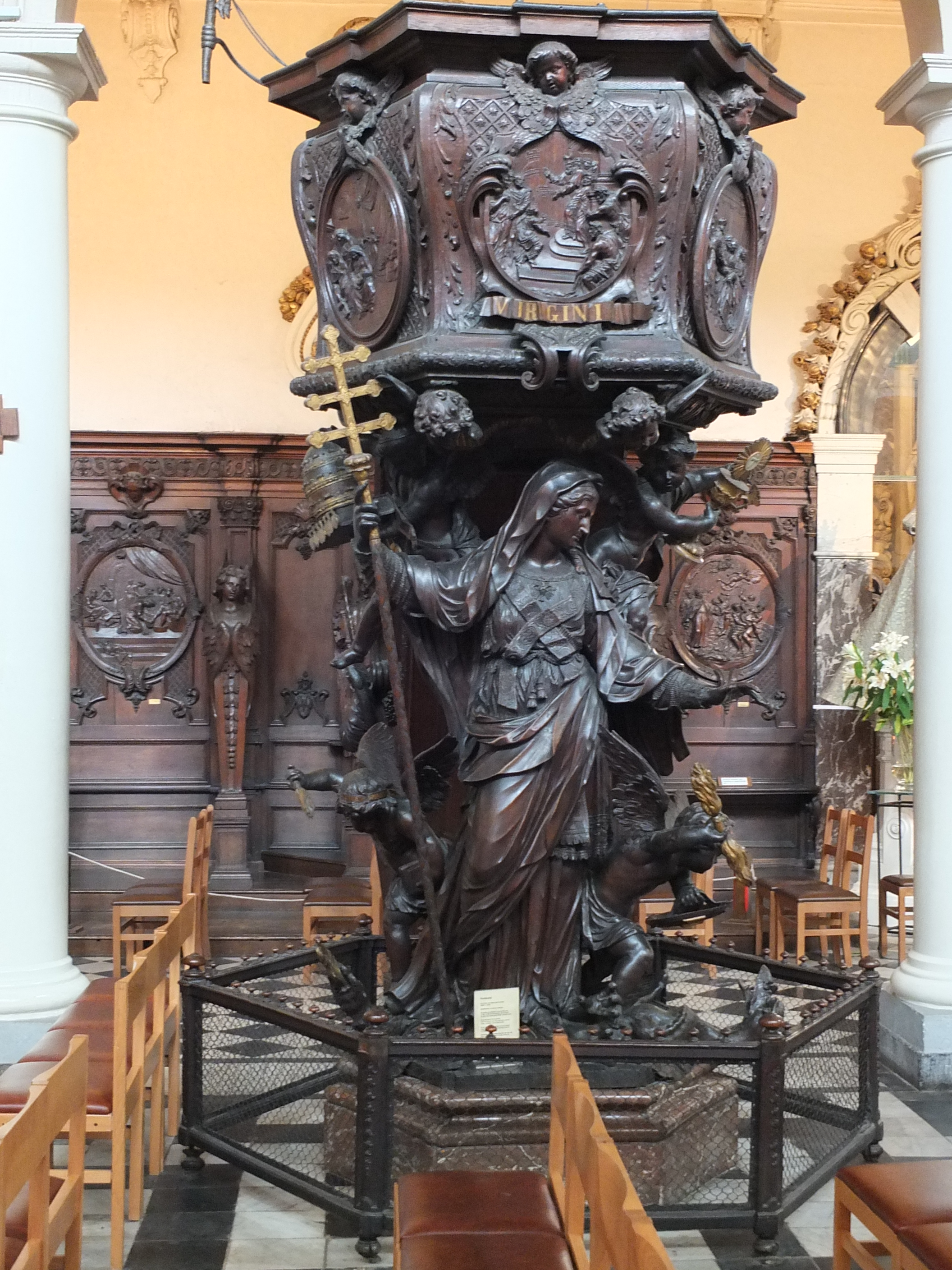 Pulpit (1718-1721) in Saint Carolus Borromeus church by Jan Pieter van Baurscheidt de Oudere. It represents the triumph of the Roman-Catholic Church over the dragon [=hereticism] of the Reformation. On the pulpit and the sounding board twelve scens from the life of the Virgin mary are to be seen.